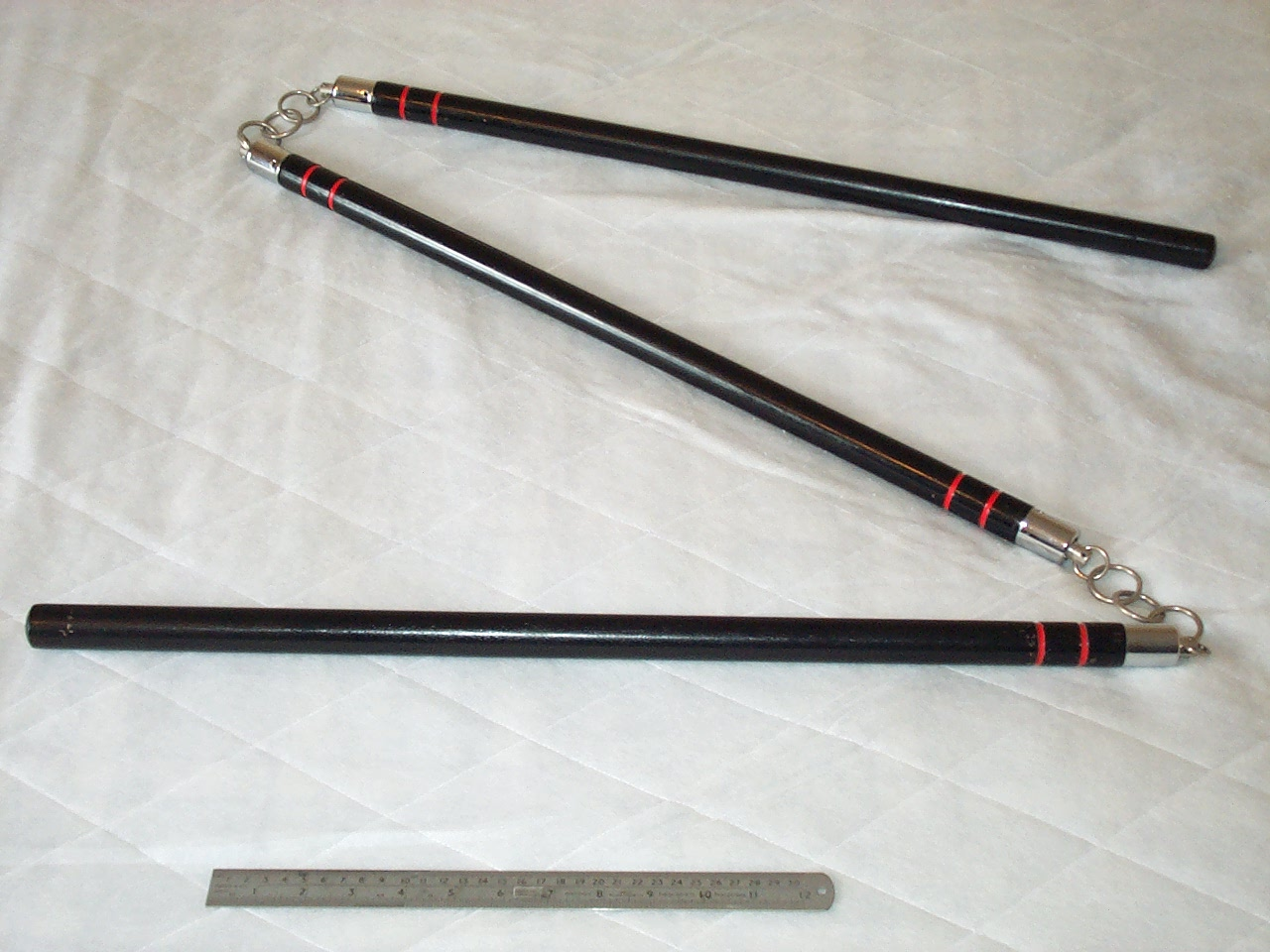 A 3 sectional staff with a 30cm steel rule for scale. The sections are made of painted wood (not a good idea for anything other than display). The weapon can be used as 2 clubs connected by a bar (as a basic shield) or 2 long nunchakas or be swung as a whip (particularly effective at going round shields). In training it is notorious for causing injuries to its user.